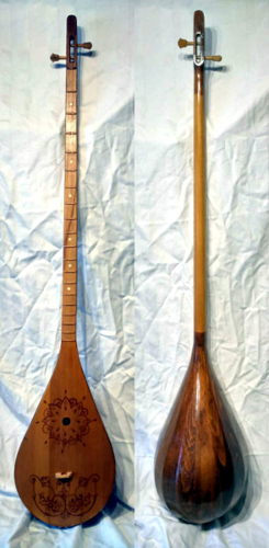 Picture of Musical instrument from the website Creative Commons Attribution Share-alike license (CC-BY-SA